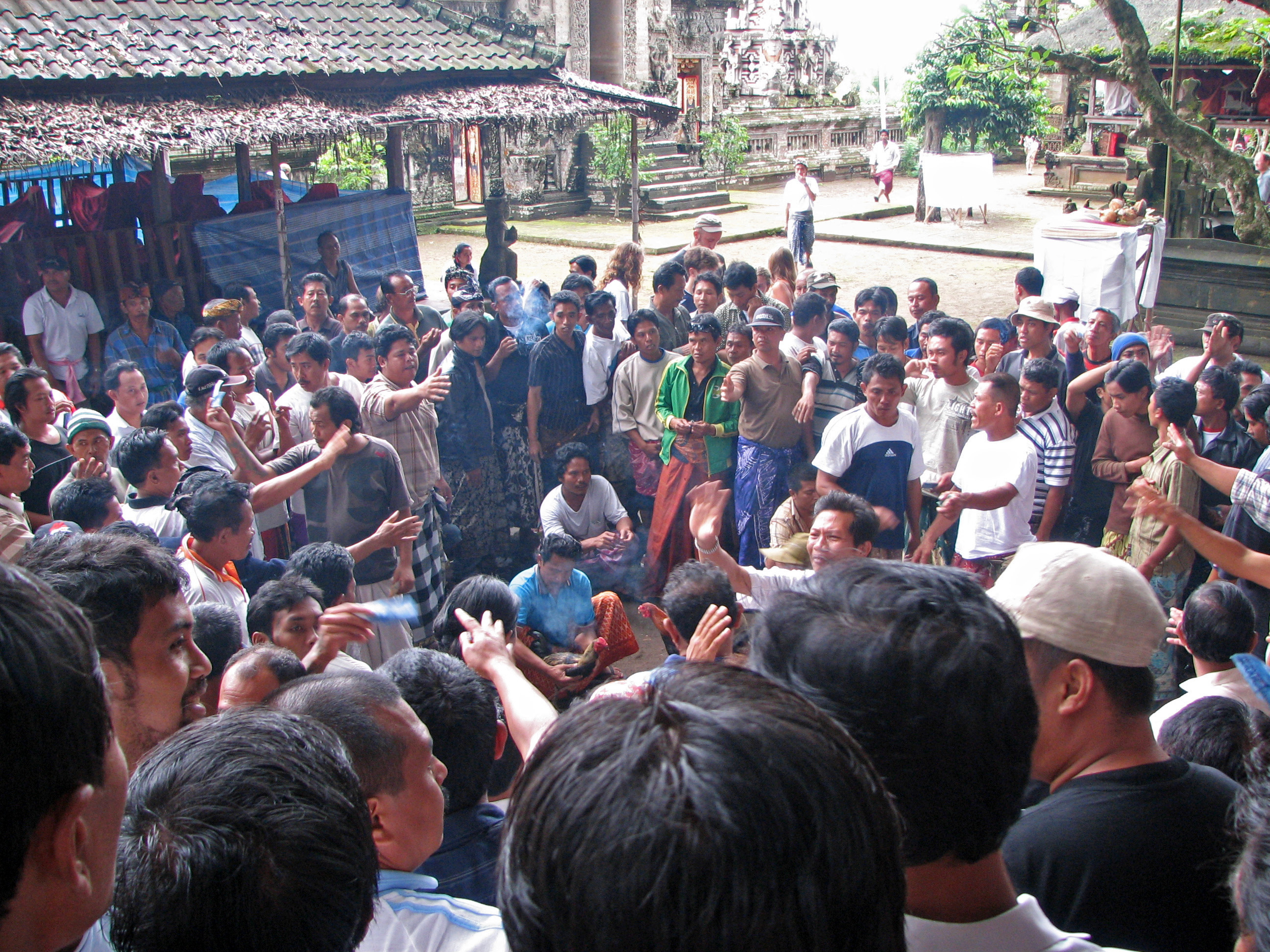 cockfight in an hinduist temple (Bali island, Indonesia)